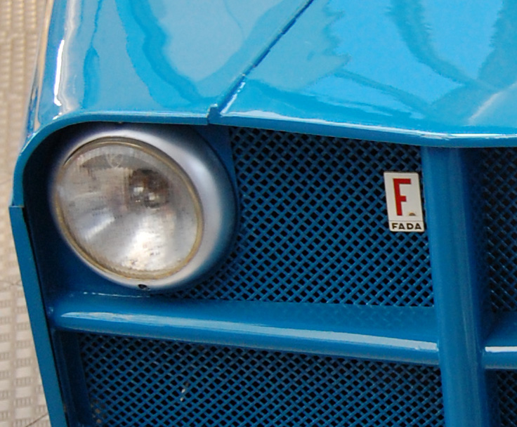 Prototype FADA motorcar van 1959 P-54 in Historic Automobile Museum Salamanca